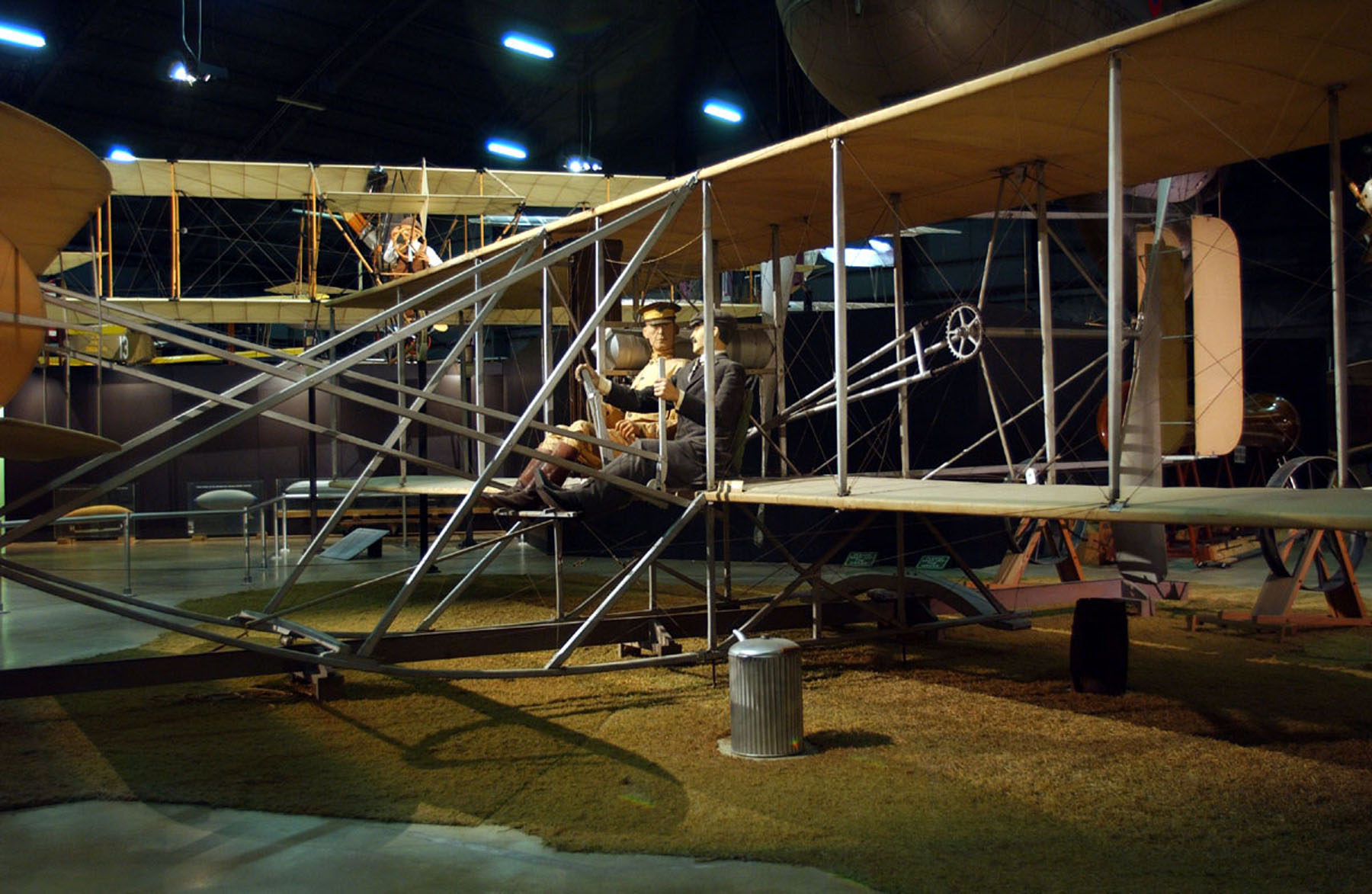 1909 Wright Flyer